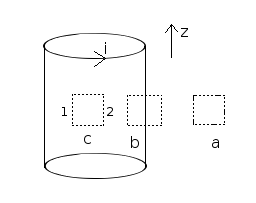 Three Ampèrian loops around a solenoid.